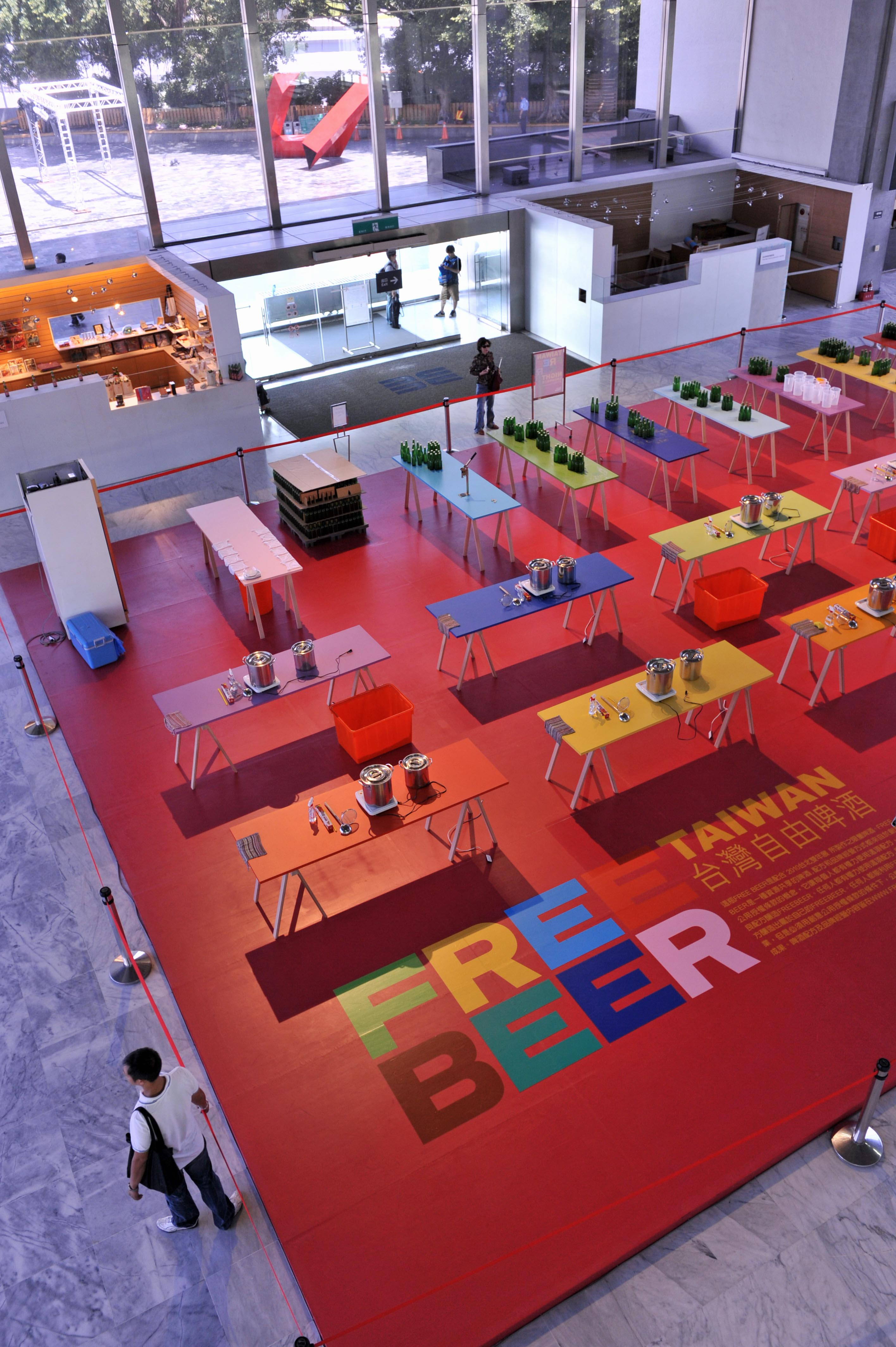 Superflex, Free Beer Factory, 2008 ongoing, taiwan taipeh